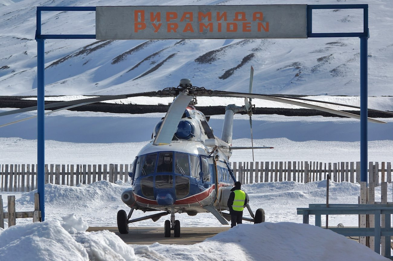 Pyramiden Heliport with a Spark+ Mil Mi-8MT RA-06156